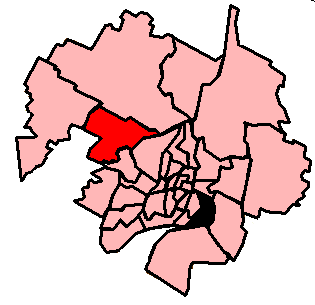 Summary: Map of the riding.